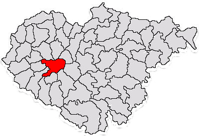 Map Salaj County Romania